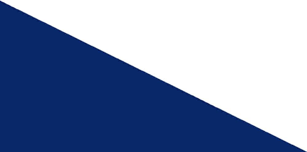 Flag of the Sikh warrior order Akali Nihangs during the Sikh Empire